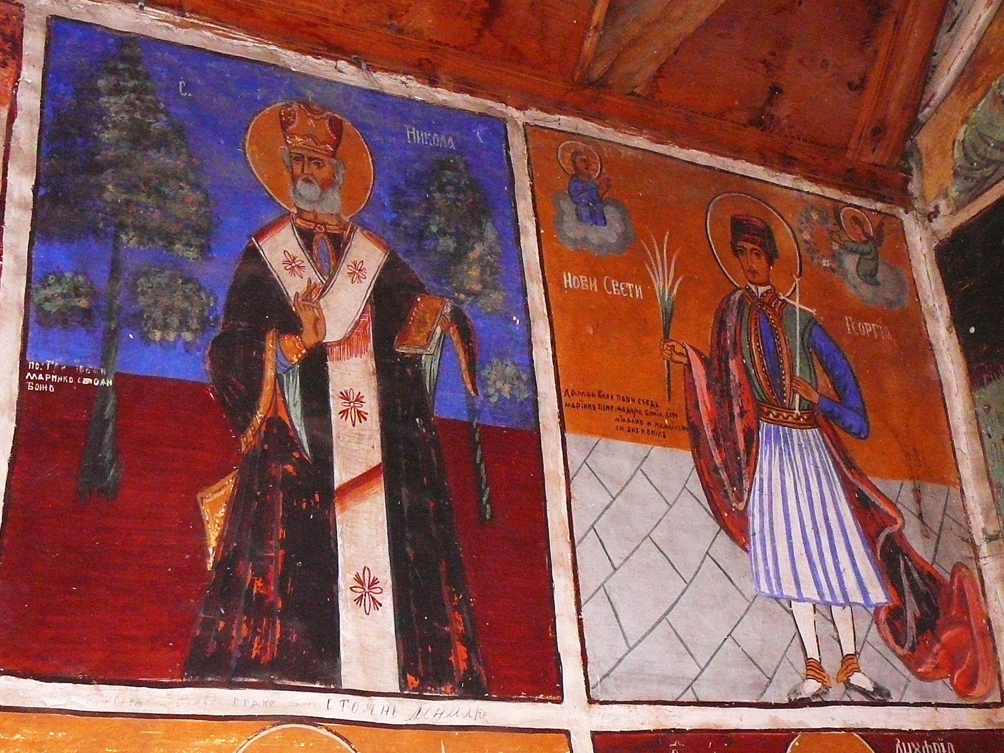 Kladnitsa Monastery, Bulgaria